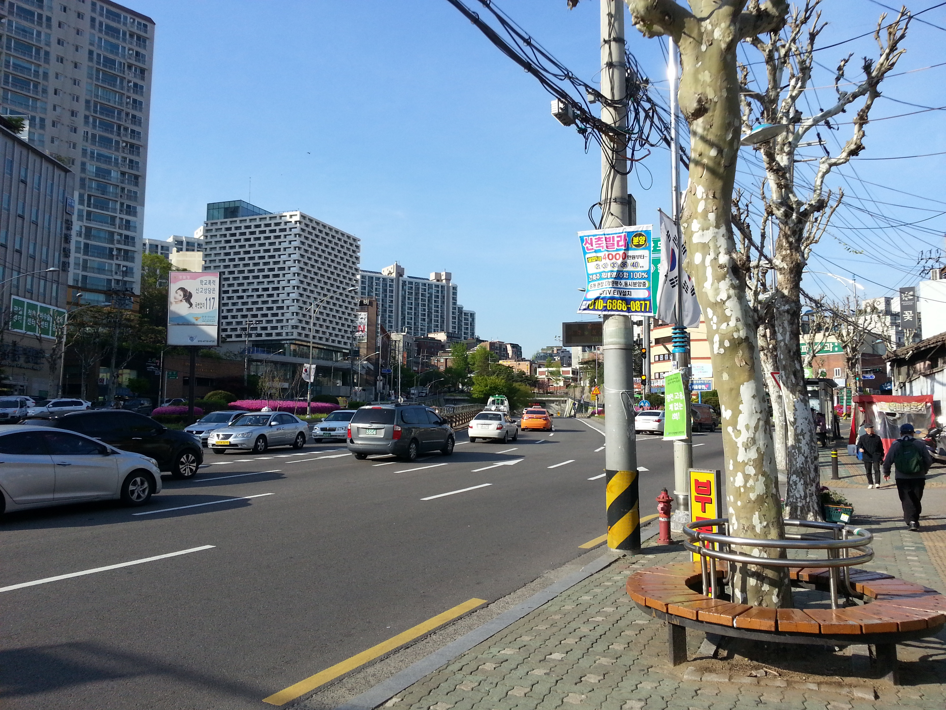 Sangdo Tunnel Entrance and Kim Young-sam center for democracy